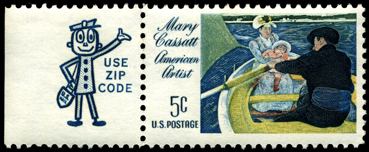 United States 5c Mary Cassatt stamp of 1966 with "Zippy" in the sheet margin